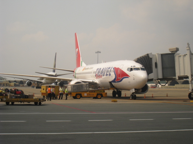 A Boeing 737-800 in Indochina Airlines livery in Tan Son Nhat Airport